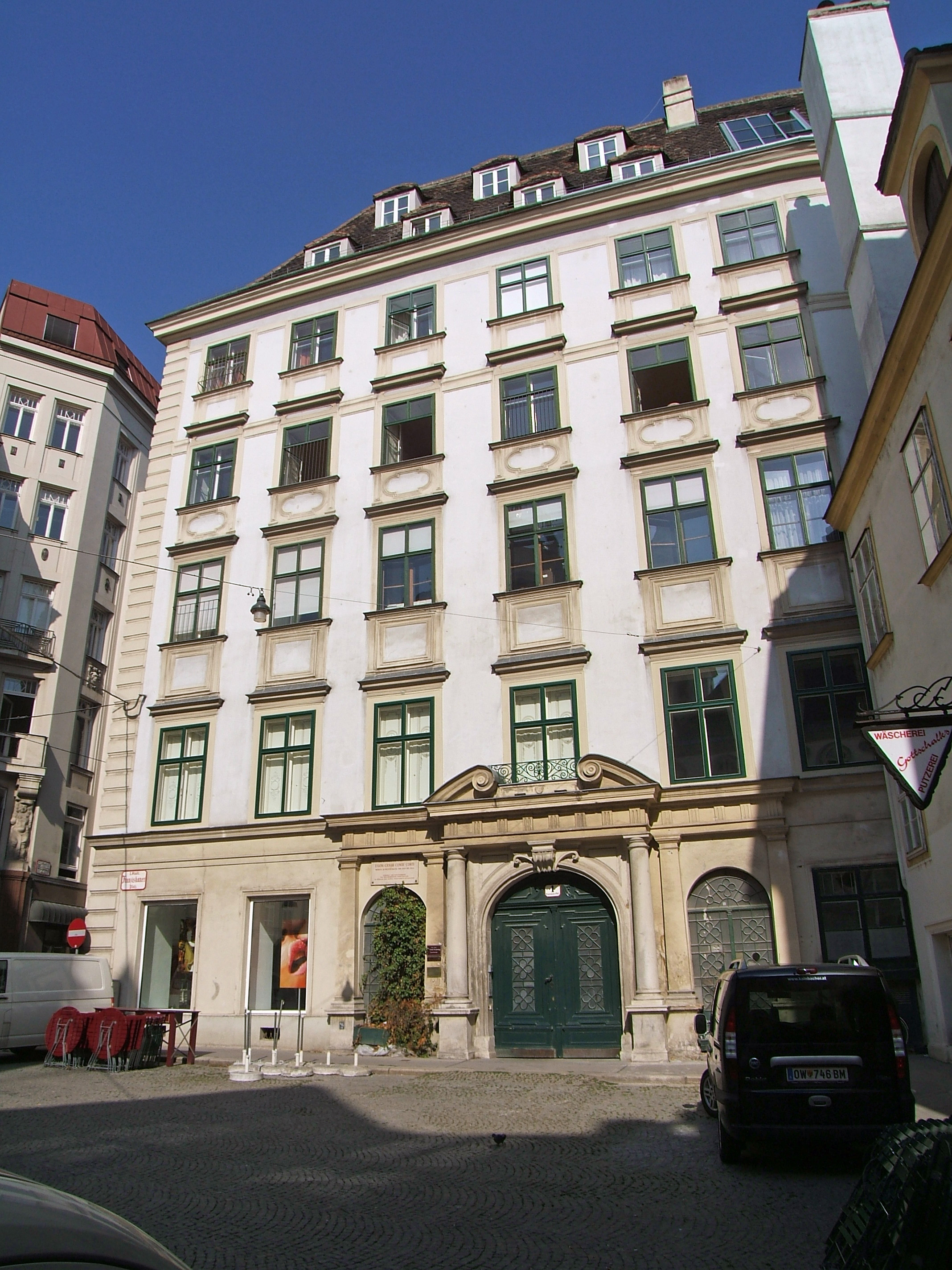 Tenement in the 1st district of Vienna Franziskanerplatz 1